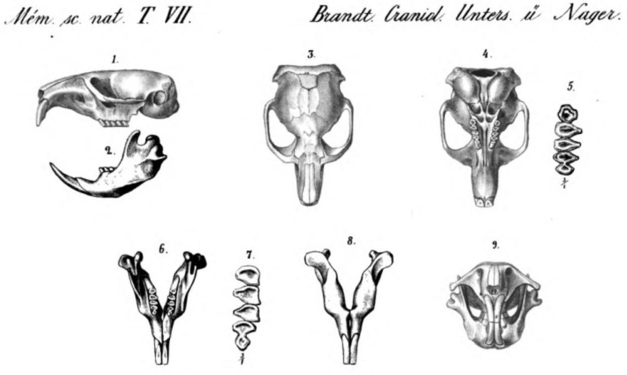 Figures 1 and 2: lateral views of the skull and mandible of Thomomys bulbivorus. Figures 3, 4, 9: skull seen from above, below and from the front. Figures 6 and 8: Lower jaw from the top and from the angle. Figures 5 and 7: Detailed views of the chewing surfaces of the upper and lower molars.